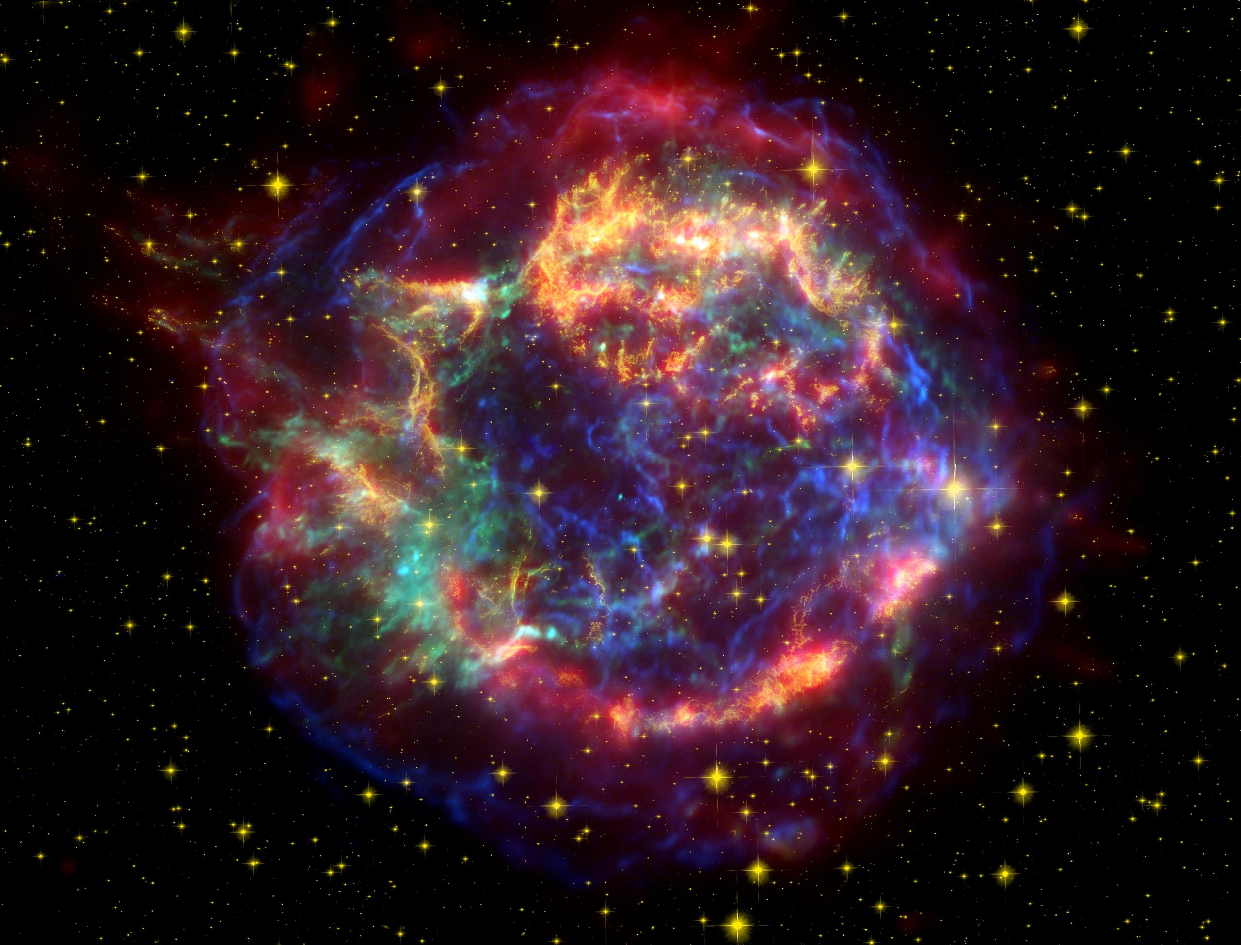 A false color image of Cassiopeia A (Cas A) using observations from both the Hubble and Spitzer telescopes as well as the Chandra X-ray Observatory (cropped).